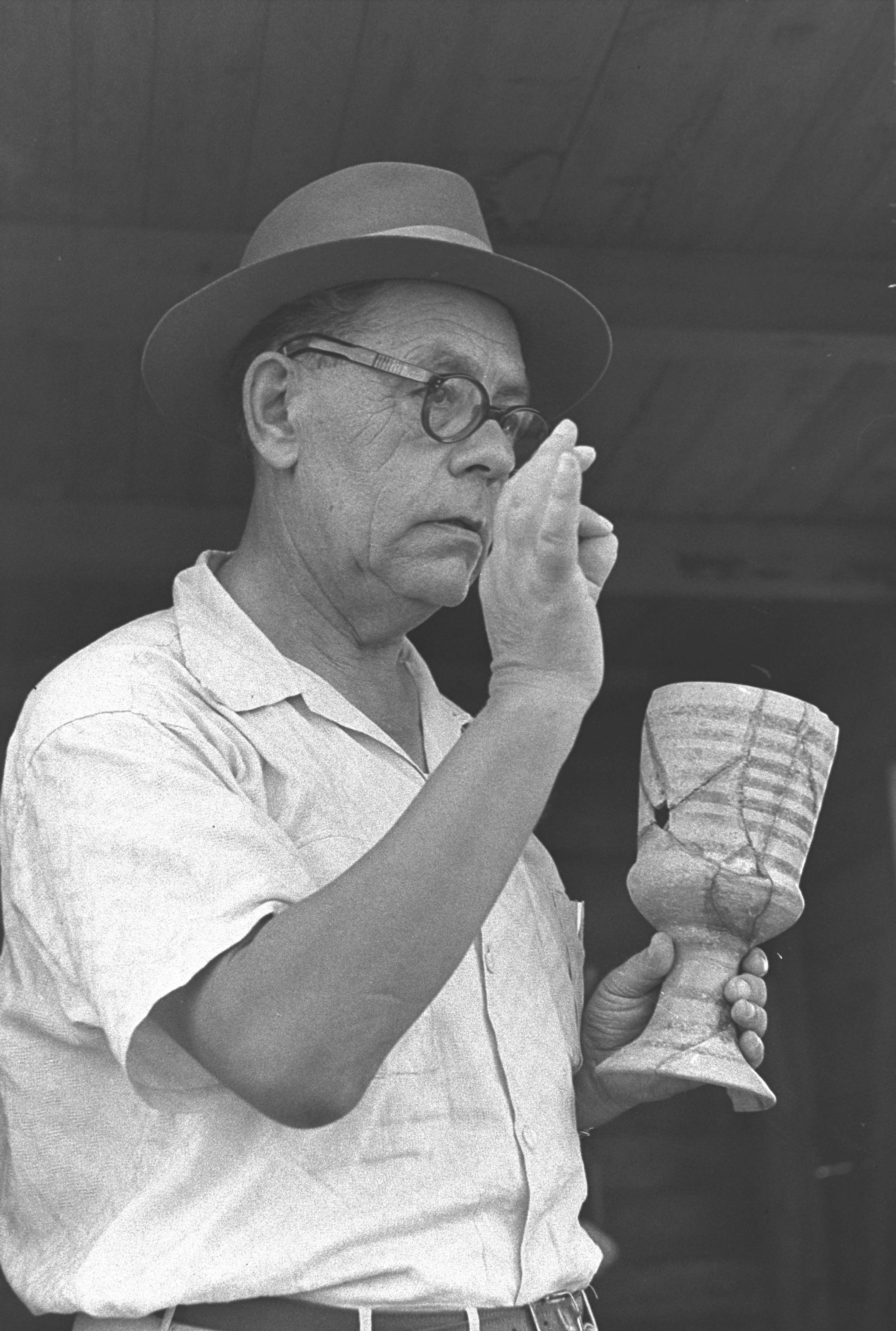 Original Description: ARCHAEOLOGIST PROF. ELIEZER SUKENIK OF THE HEBREW UNIVERSITY.